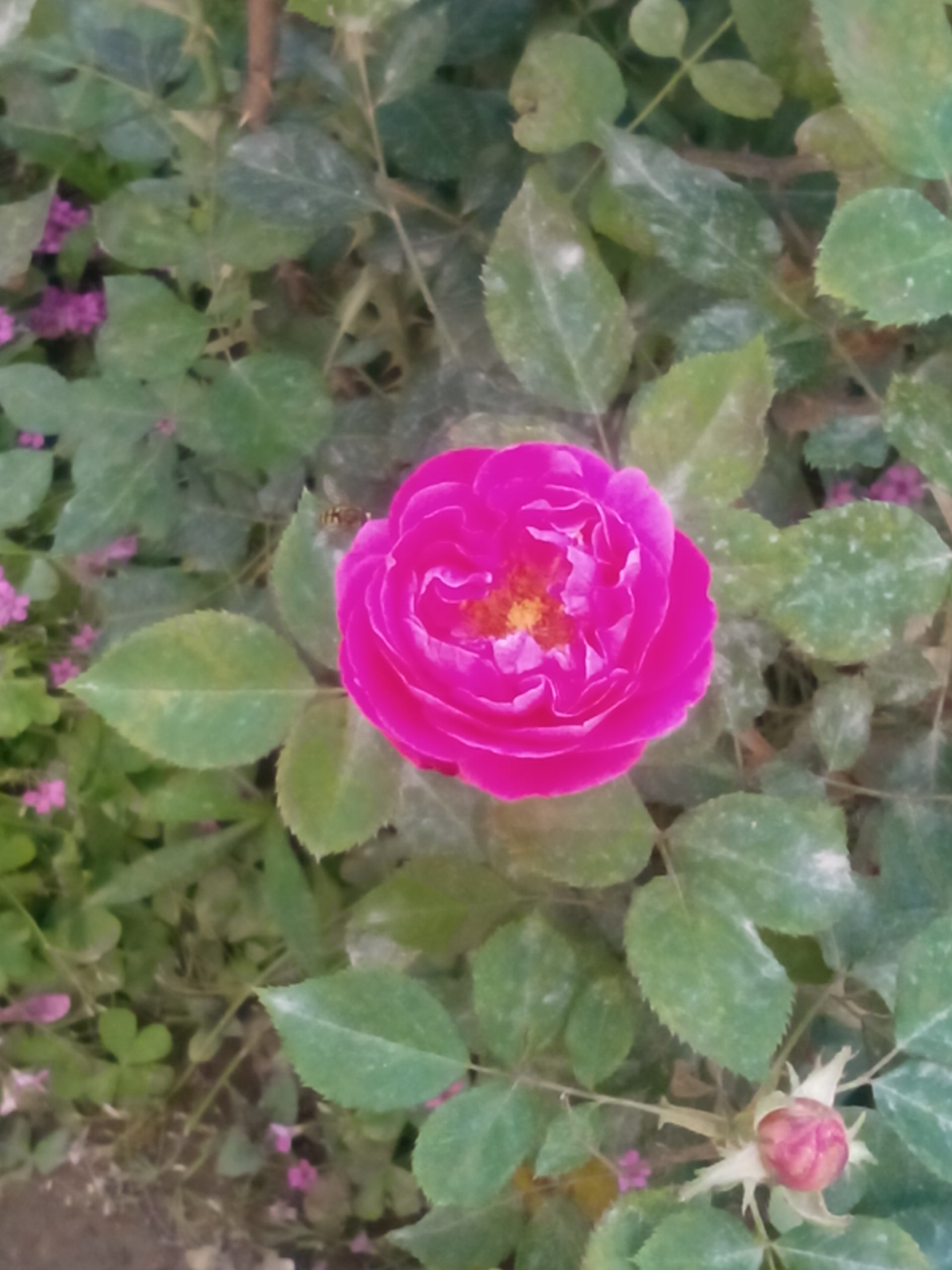 Red Flower's in Baghdad